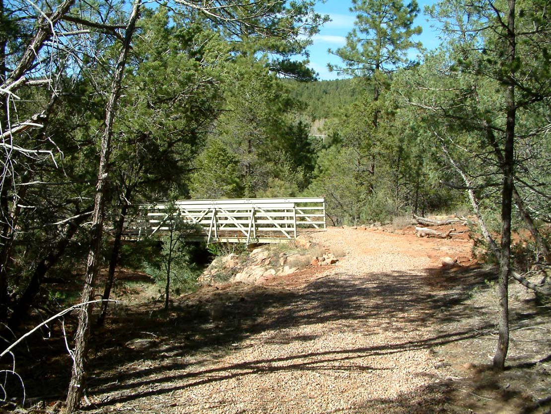 Battle of Glorieta Pass Battlefield, Pecos National Park, New Mexico, USA. Picture of the landscaping at the battle site